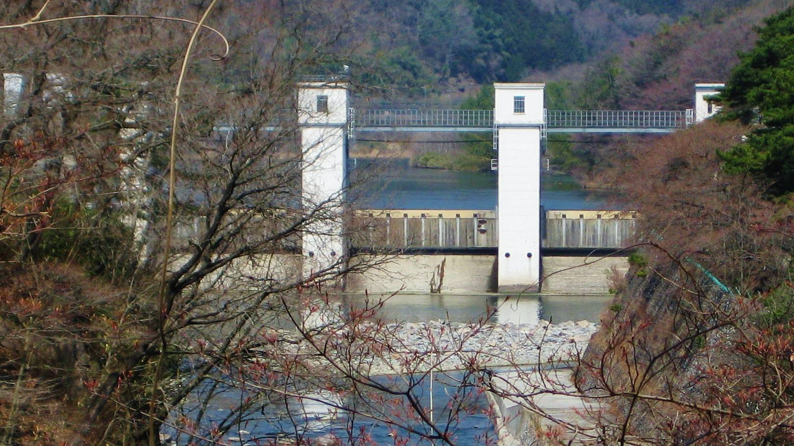 Ayado Dam.